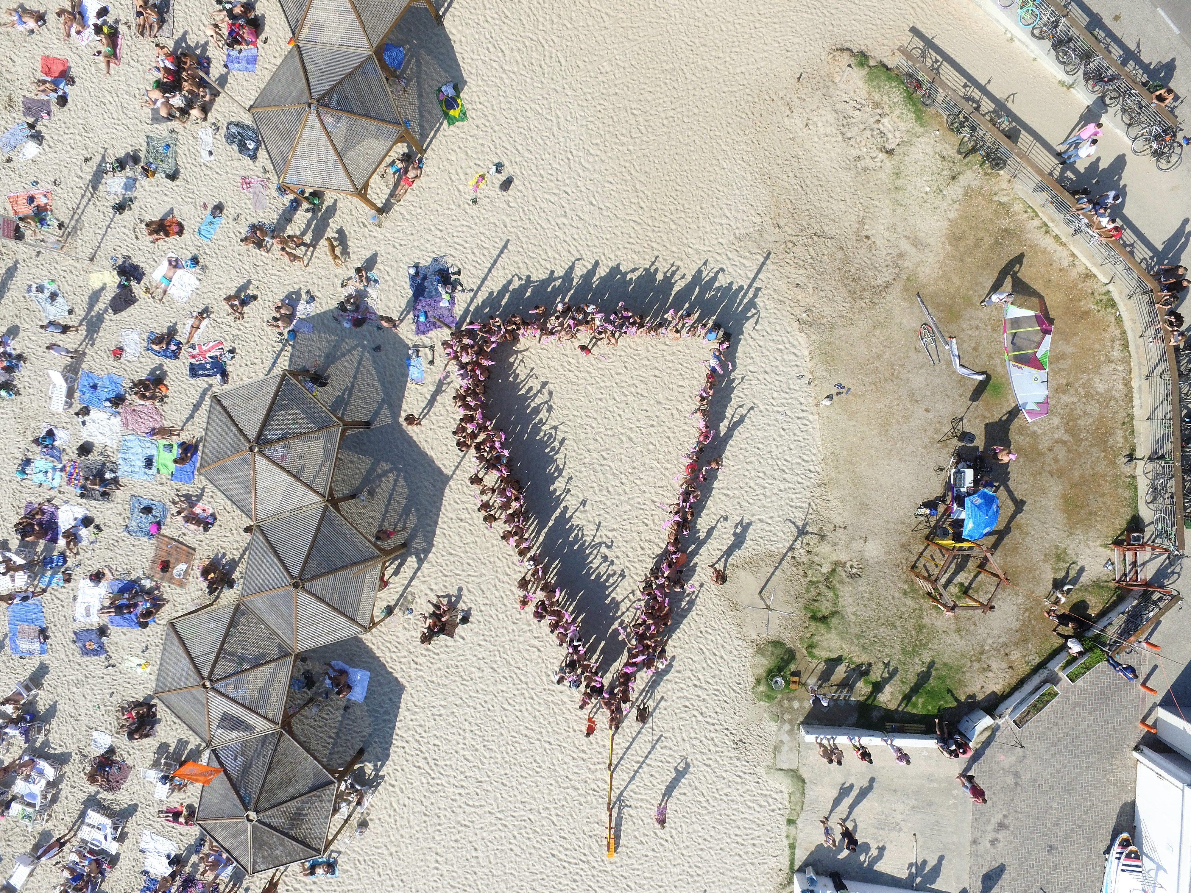 300 Israeli gay men stood as a shape triangle wearing pink bands to support the gay prisoners in Chechnya